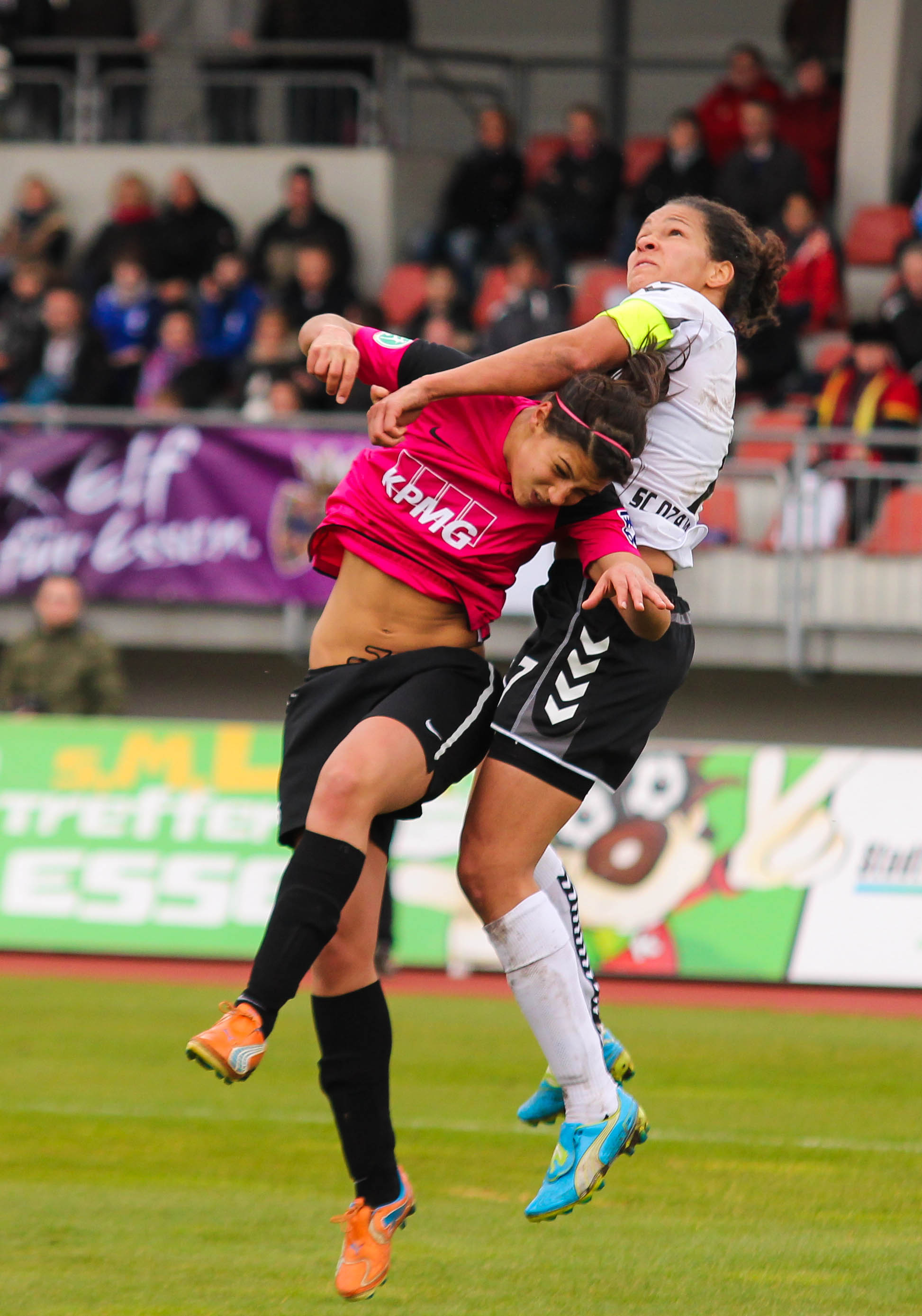 Portuguese football player Carole da Silva Costa (left) and German football player Célia Okoyino da Mbabi (right) in a Bundesliga match between SG Essen-Schönebeck and SC 07 Bad Neuenahr (11th march 2012)